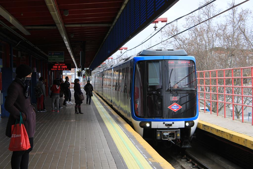 Aluche station on line 5 of the Madrid Metro